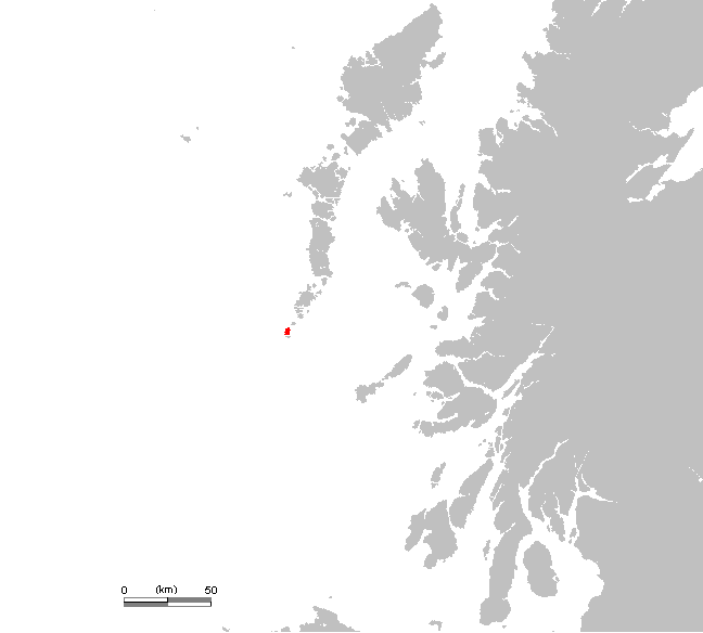 UK Mingulay.PNG (Scotland, Hebrides)